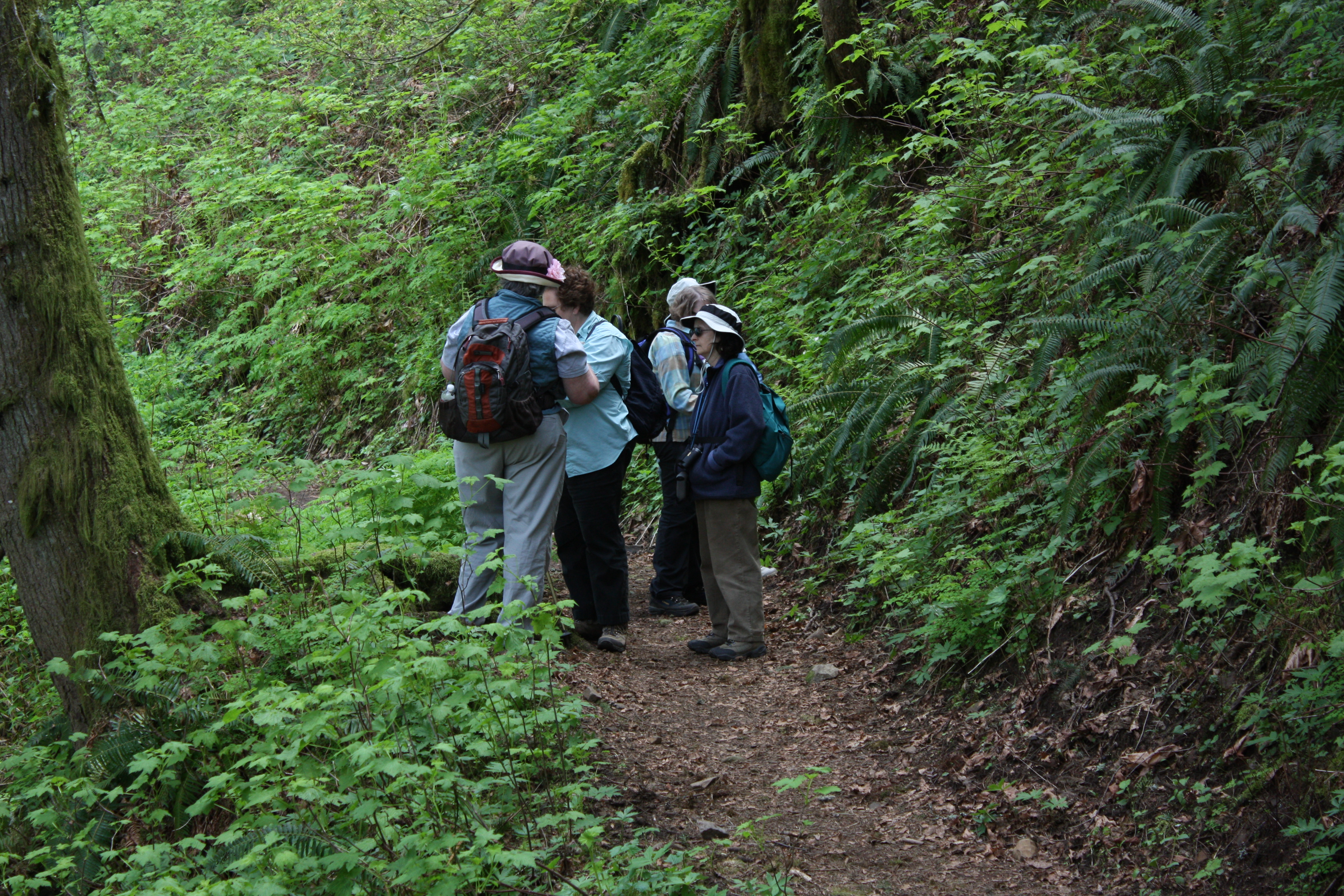 Hikers on a Washington Native Plant Society field trip